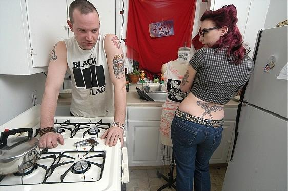 Image from Armed Americans: Portraits of Gun Owners in Their Homes